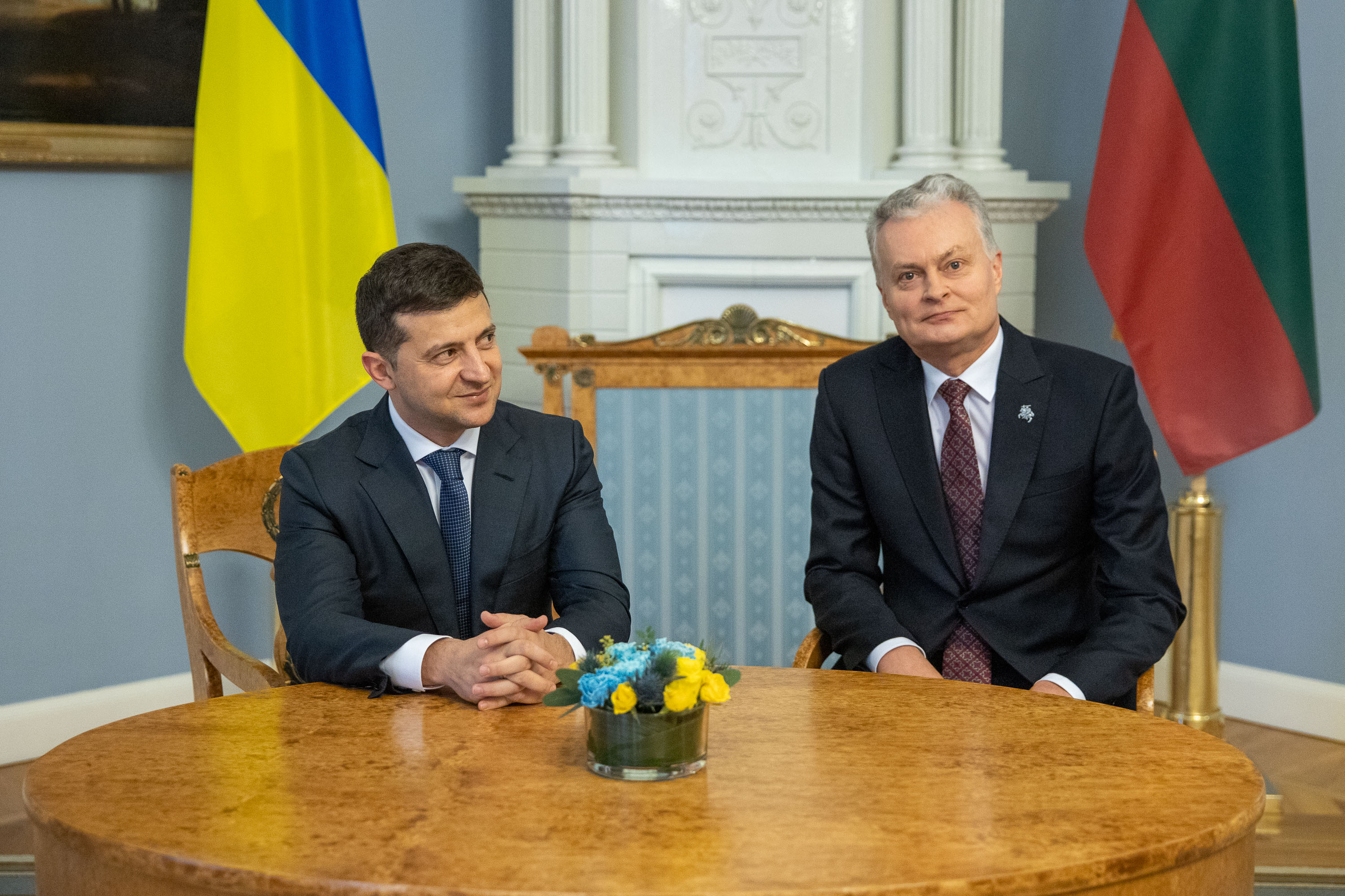 Volodymyr Zelensky with Gitanas Nausėda